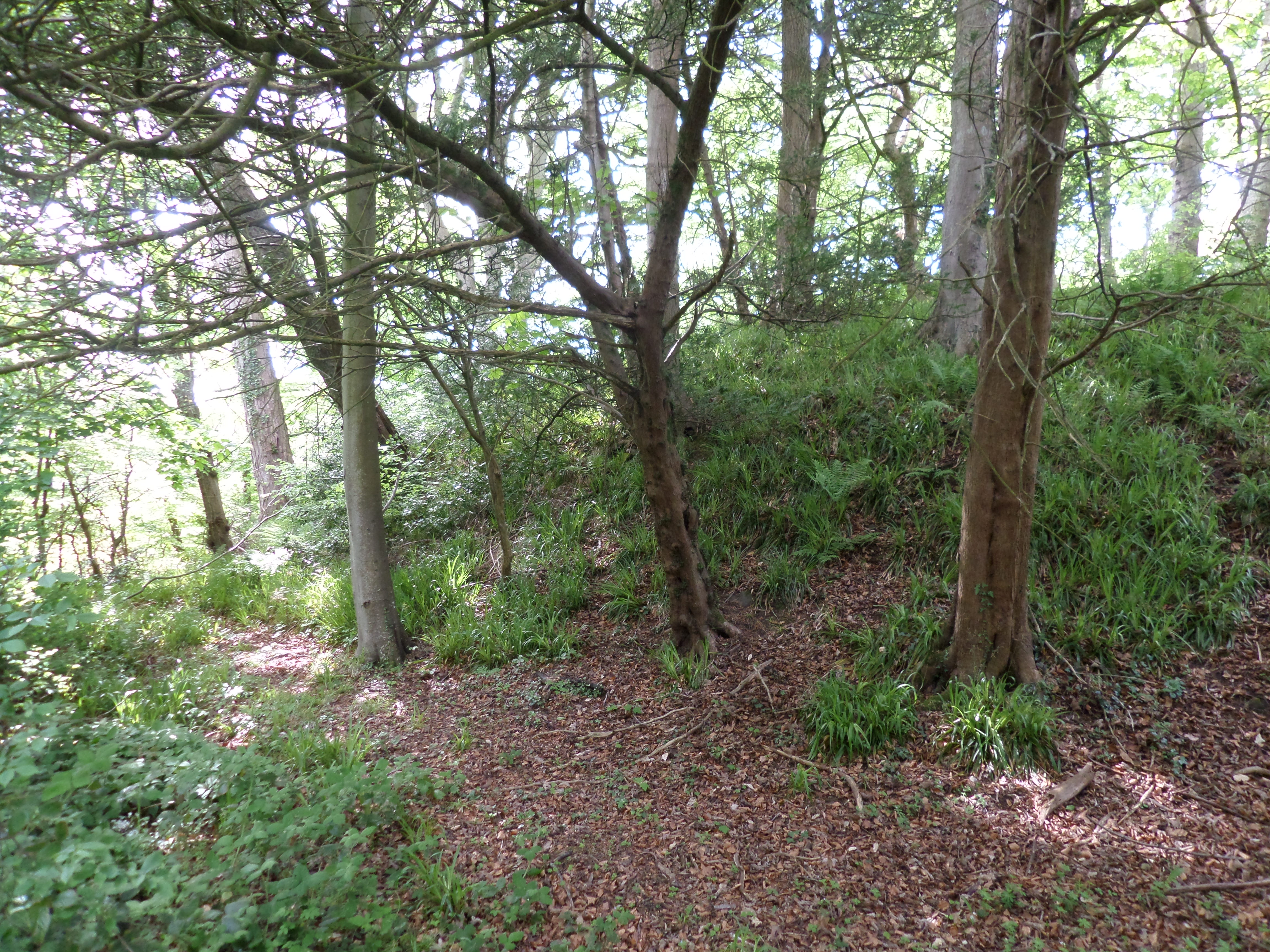 Alloway Motte and Court Hill, Ayr, South Ayrshire, Scotland. Site of the defensive ditch. Located at the entrance to the private Doonholm Estate.